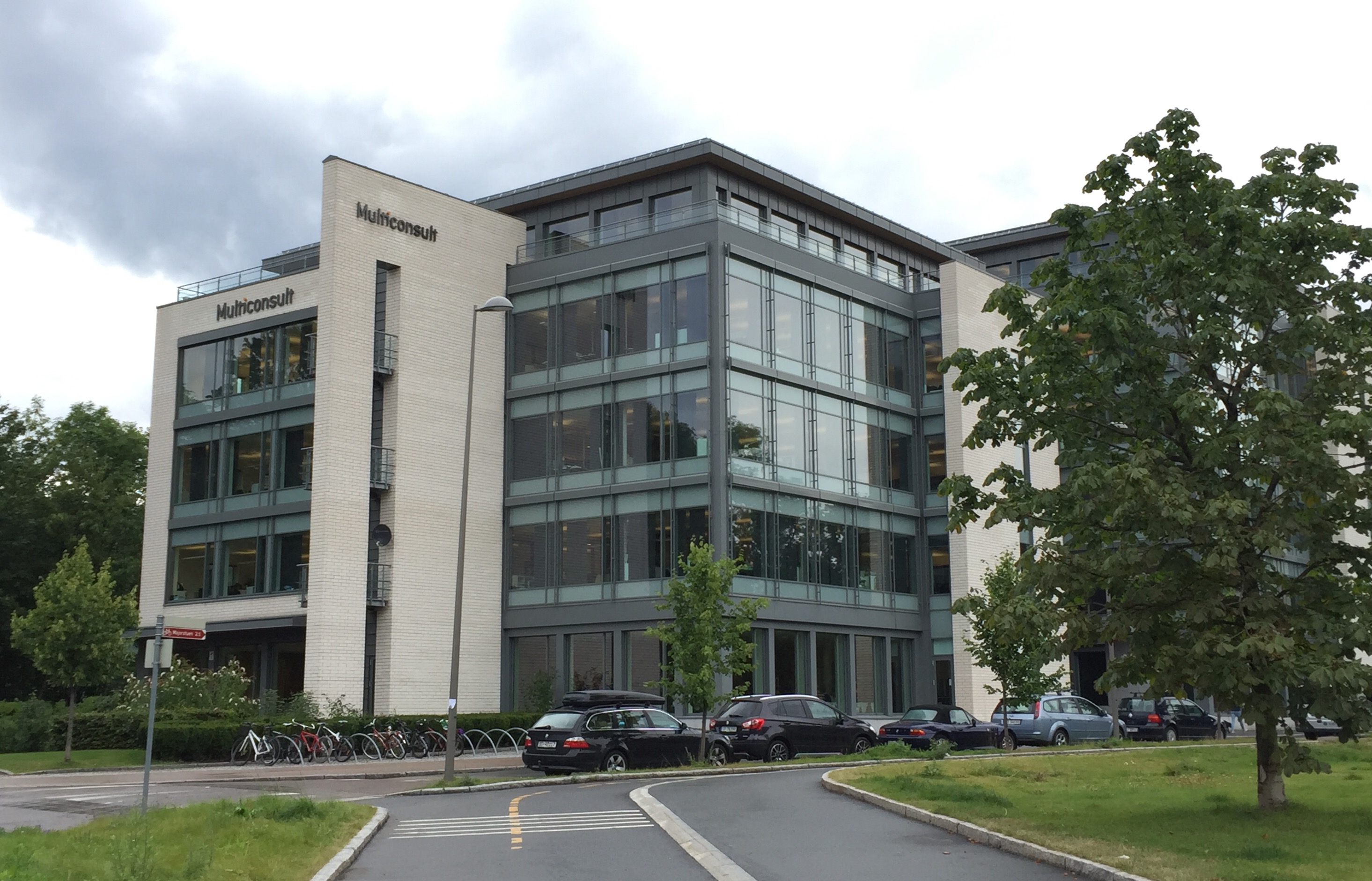 The corporate seat of Multiconsult in OsloNorsk bokmål: Multiconsults hovedkontor i Oslo